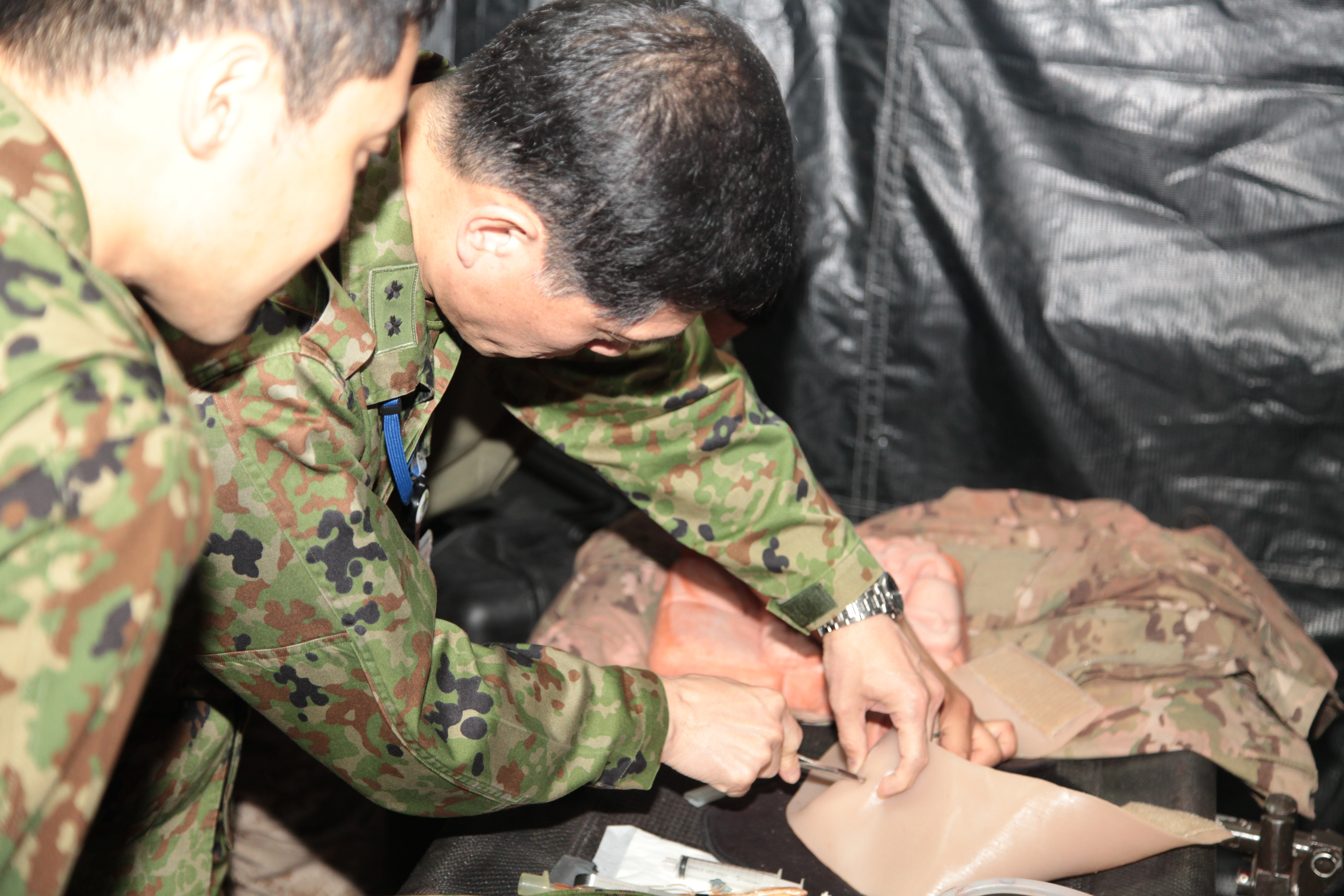 U.S. Navy Petty Officer 2nd Class Fernan P. Diamse, right, demonstrates the life-like texture of a mannequin’s skin to Japan Ground Self-Defense Force Maj. Gen. Yoshiro Oshika March 28 at the III Marine Expeditionary Force tactical medical simulation center on Camp Hansen. Sailors with 3rd Medical Battalion shared their knowledge and techniques with members of the Japan Self-Defense Force during a two-day tour that included the U.S. Naval Hospital Okinawa at Camp Foster and 3rd Medical Battalion’s medical training facilities on Camps Foster, Hansen and Kinser. Oshika is the director of the Medical Department, ground staff office, JGSDF. Diamse is a corpsman with 3rd Medical Bn., Combat Logistics Regiment 35, 3rd Marine Logistics Group, III MEF. Unit: III Marine Expeditionary Force DVIDS Tags: medical; service members; Japan; III Marine Expeditionary Force; 3rd Marine Division; Foster; U.S. Naval Hospital Okinawa; Kinser; JGSDF; military; Marine Corps; Marines; Hansen; 3rd Medical Battalion; 3rd Marine Logistics Group; 3rd MLG; Japan Self-Defense Force; III MEF; Okinawa Marine; JSDF; Japan Ground Self-Defense Force; USNH Okinawa; MCIPAC; Marine Corps Installations Pacific; III Marine Expeditionary Force Tactical Medical Simulation Center; Brandon C. Suhr; III MEF TMSC; Lisa M. Palacheck; Yoshiro Oshika; Herbert H. Smith